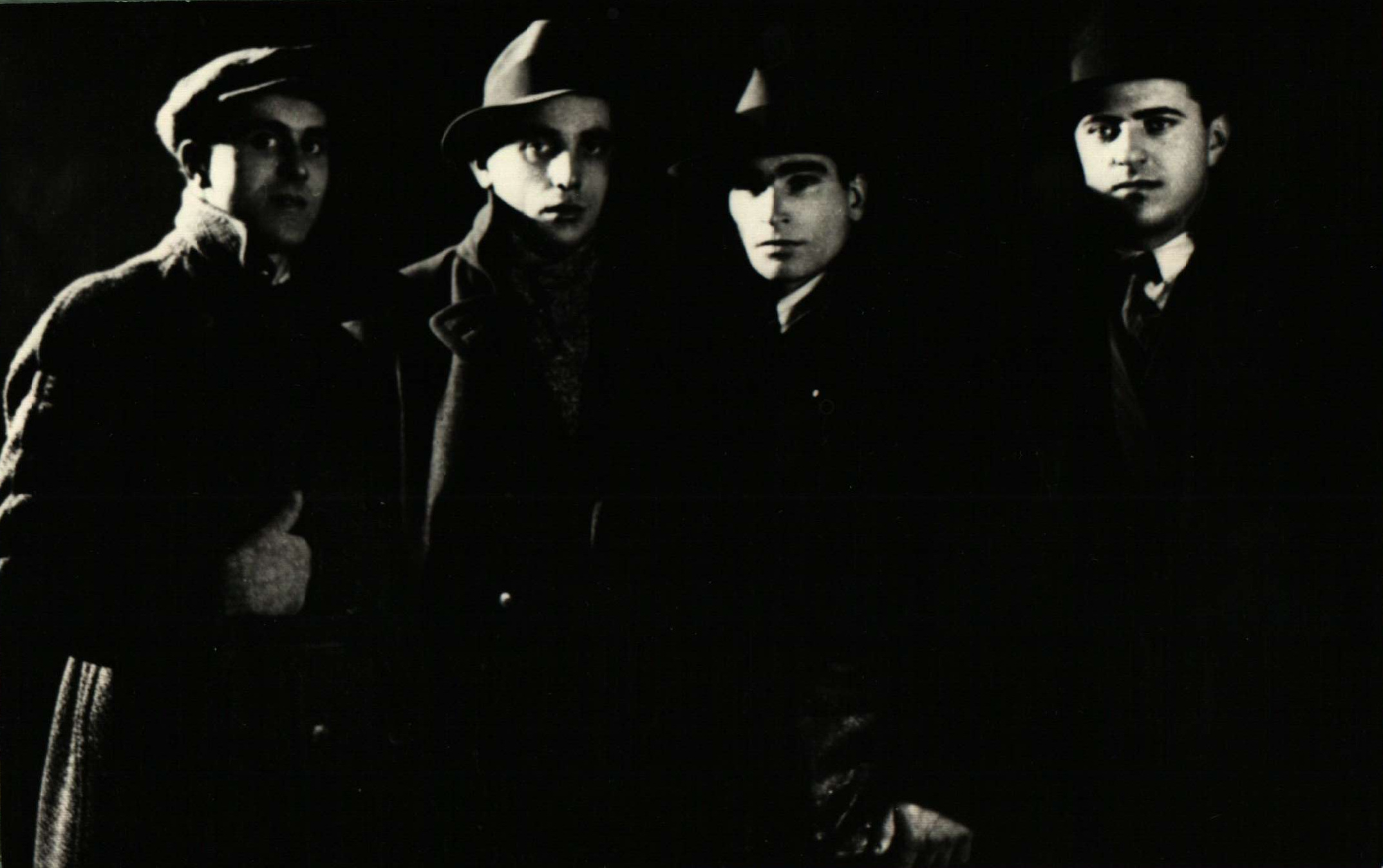 Aleksandar Zhendov (1901-1953), Hristo Radevski (1903-1996), Georgi Karaslavov (1904-1980) and Nikola Lankov (1902-1965), Sofia, Bulgaria.